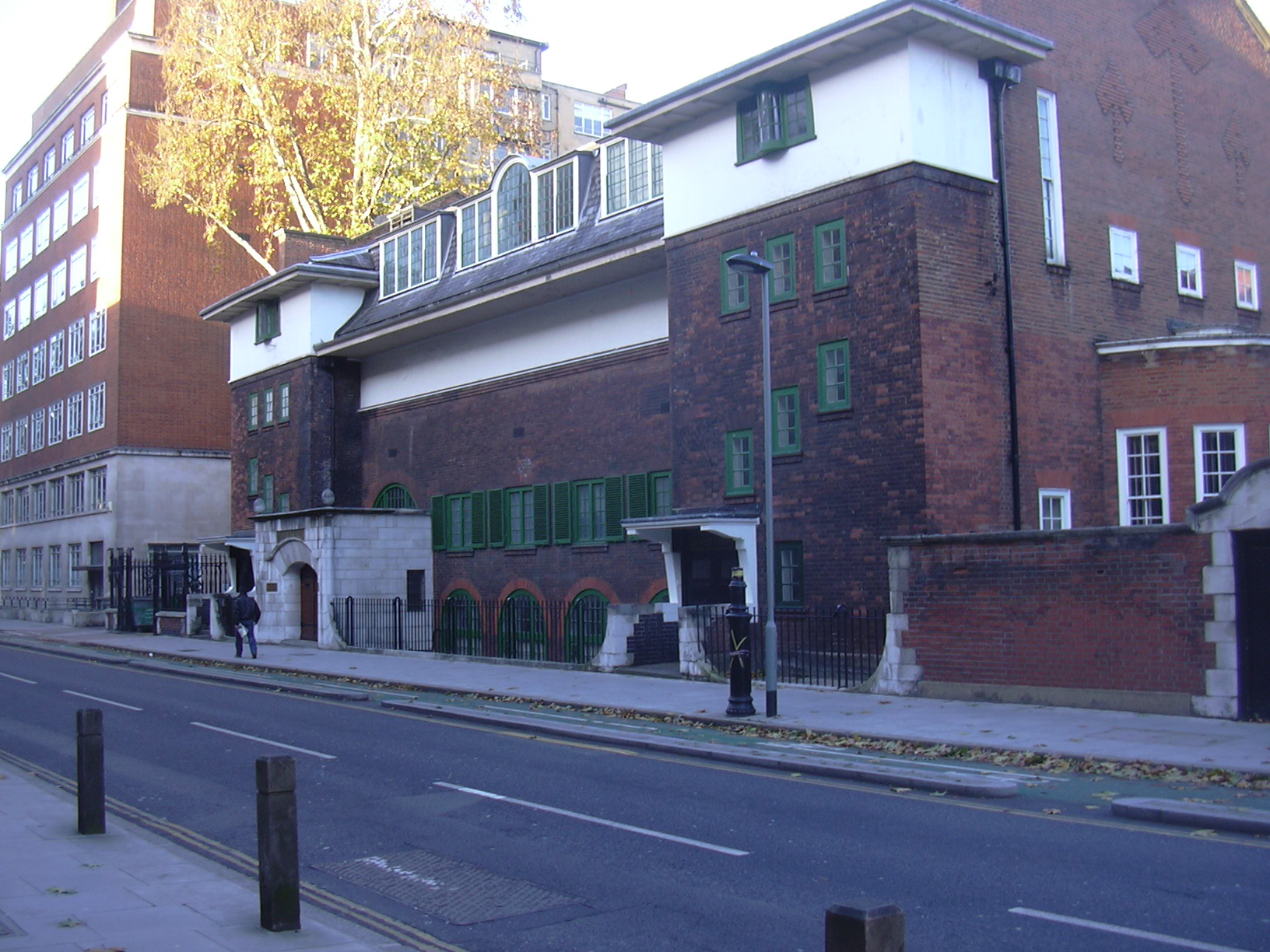 Mary Ward Settlement, Tavistock Place.